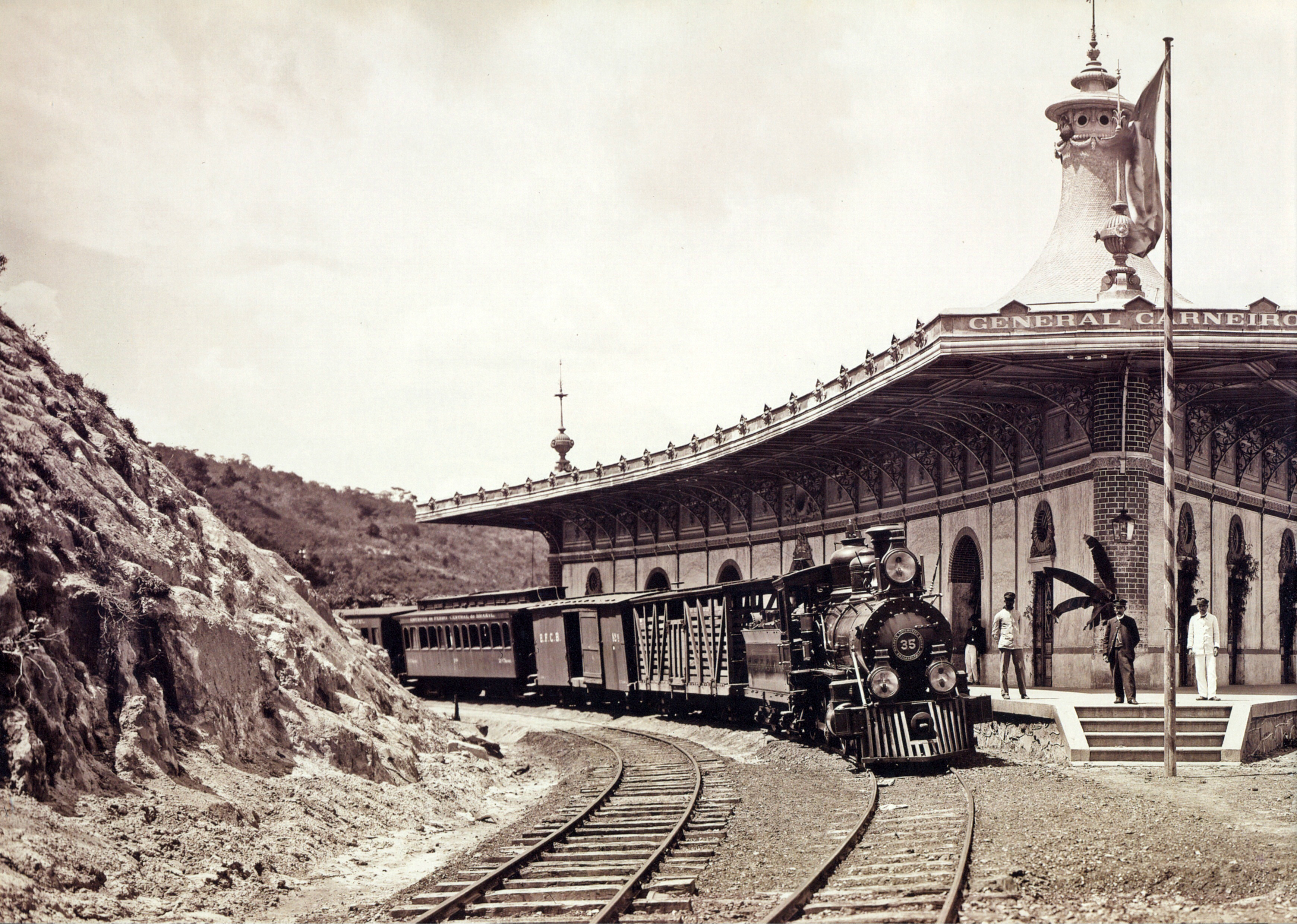 General Carneiro station which belonged to Minas and Rio railway. Minas Gerais province, Brazil, c.1884.